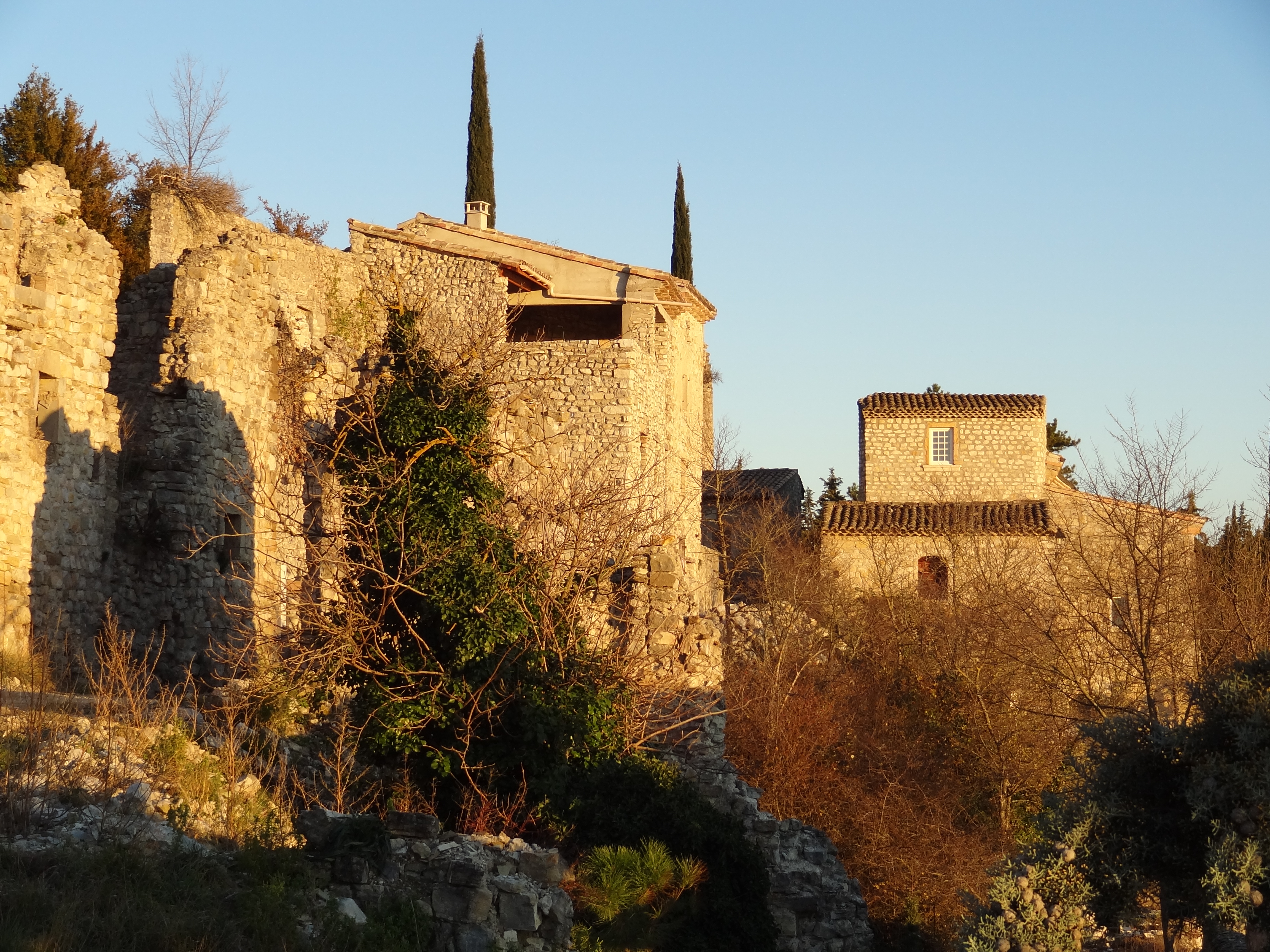 Picture from the "Maison de Mirabel"